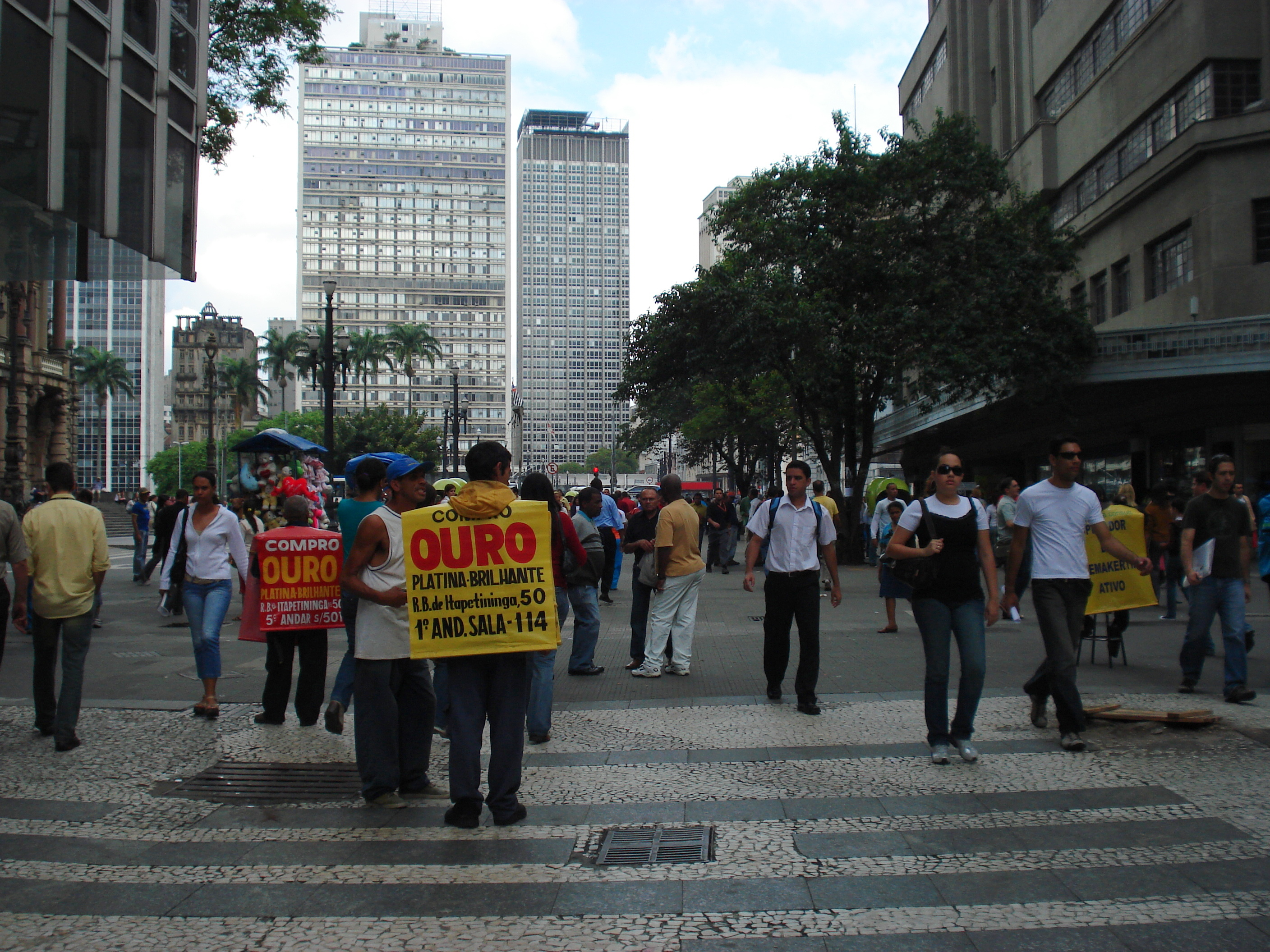 Rua Barão de Itapetininga - street in São Paulo, Brazil.